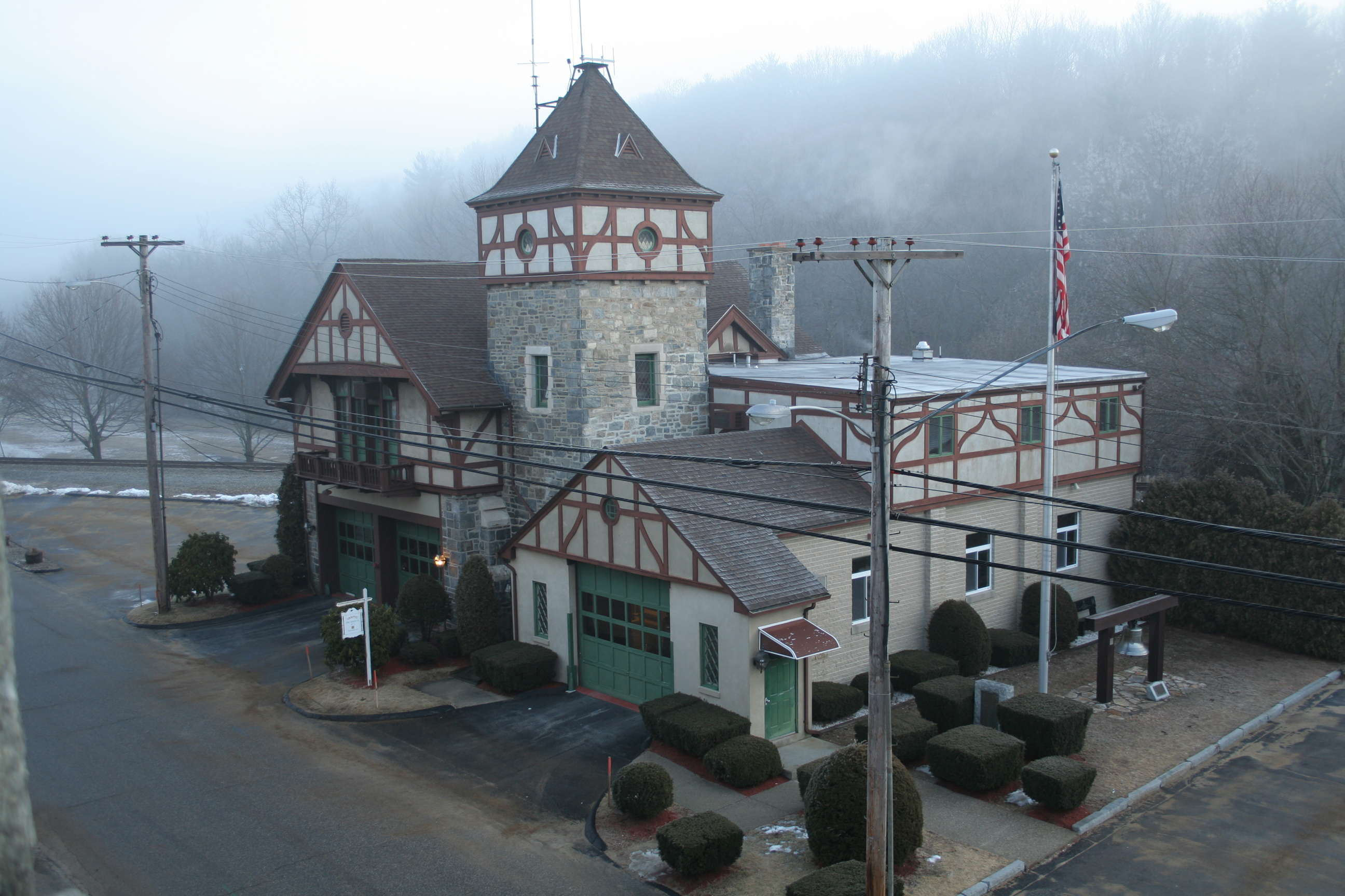 Taken March 3, 2007 by Kevin Pepin